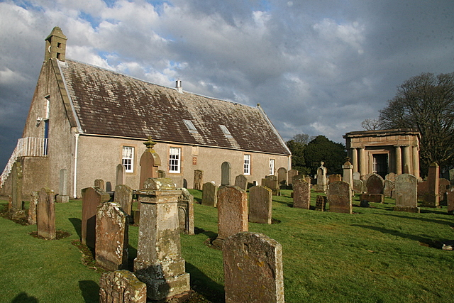 St. Quivox parish church St. Quivox Church dates from 1767 and it was built upon another building from medieval times. The 1822 Mausoleum of the Campbell's of Craigie, designed by W.H. Playfair, is visible on the right.